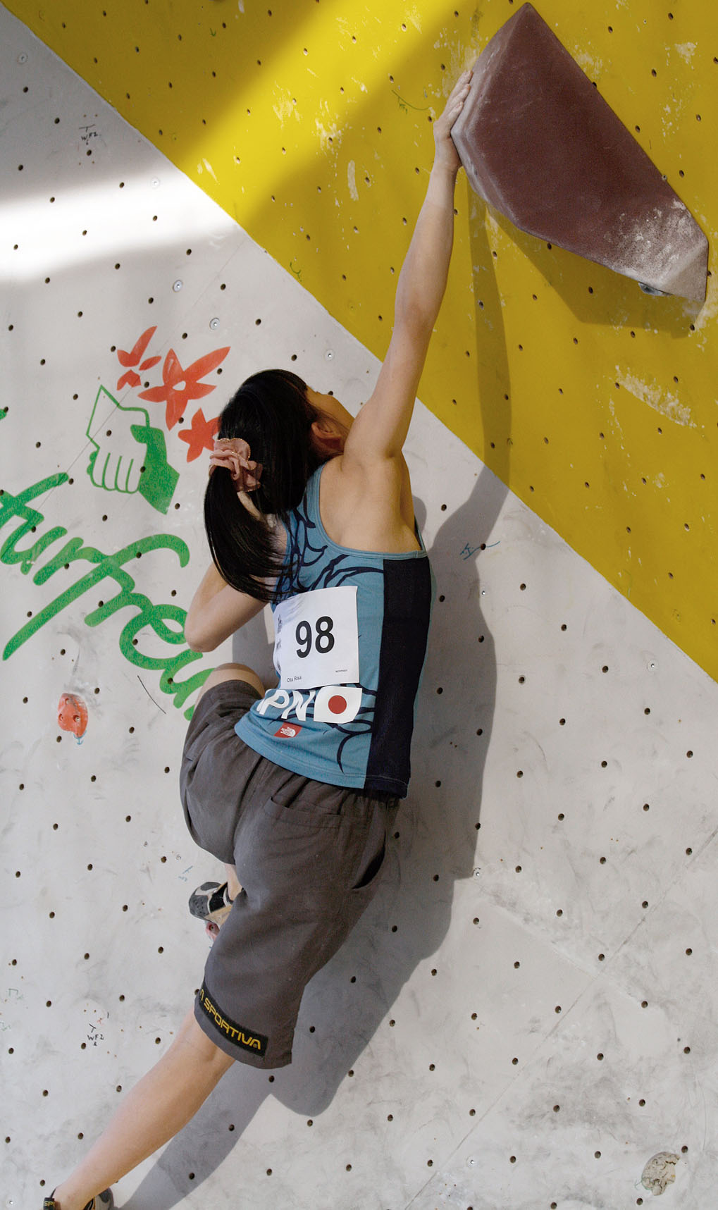 Risa Ota during qualifications at the IFSC Boulder Worldcup Vienna 2010.